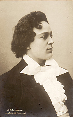 Leonid Sobinov as Vladimir Lensky in Pyotr Tchaikovsky's opera Eugene Onegin. Image from 1898. Immediate image source: [1], from [2]. The photographer is not known. If the photographer died before 1954, the photo is also in the public domain in Russia, and would also apply.